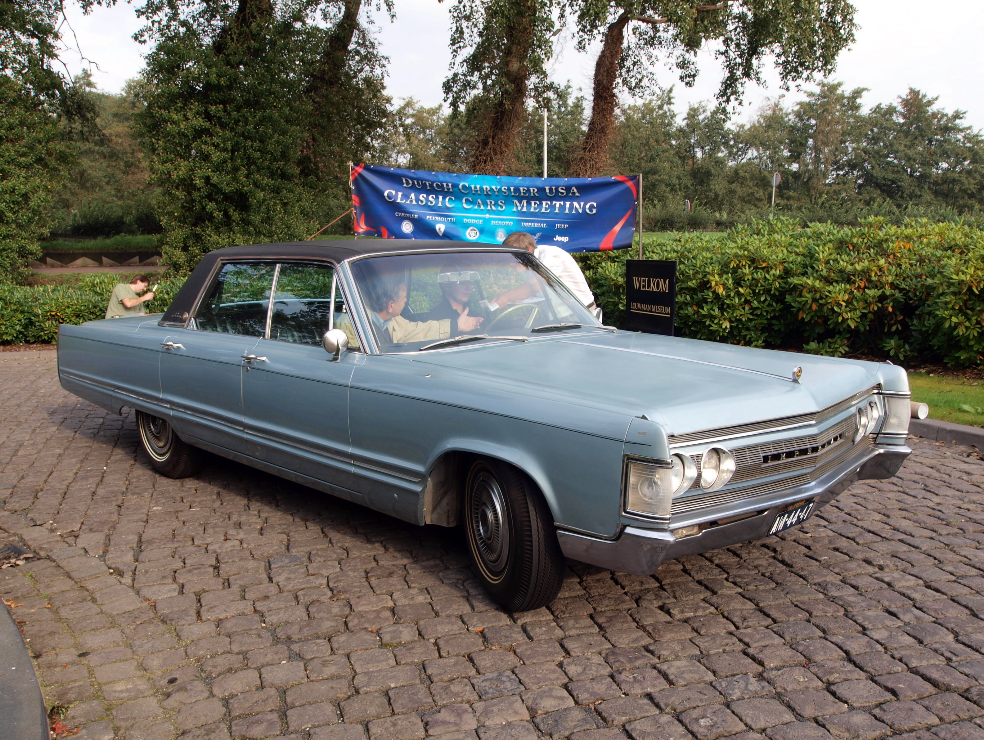 Photographed at the premmesis of the Louwman museum, The Hague, The Netherlands. OLYMPUS DIGITAL CAMERA